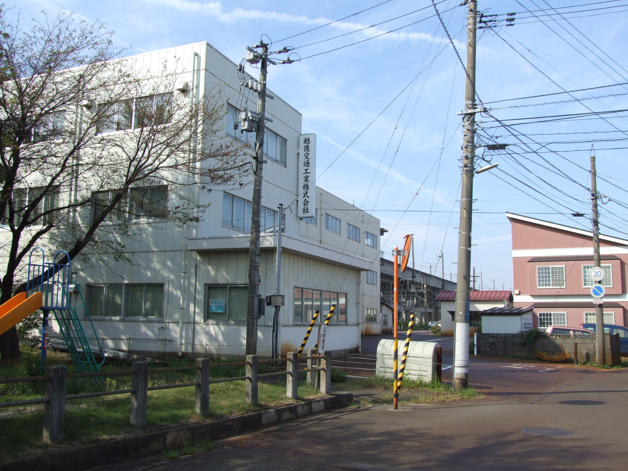 Remains of Shimo-Nagaoka Station Tochio Line in 2011